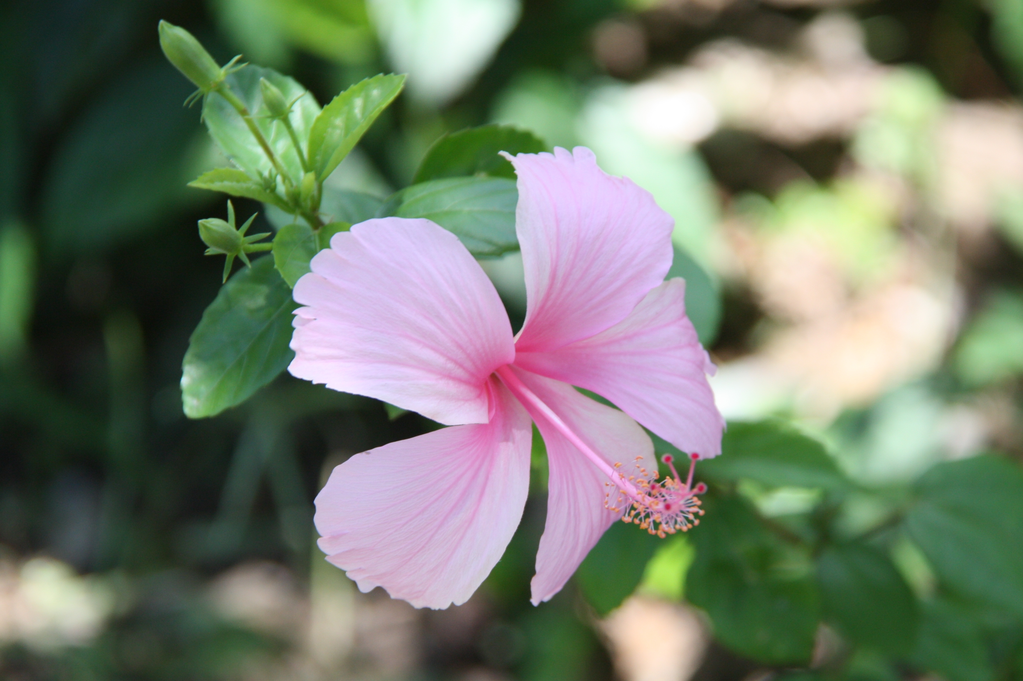 Táiběi Da-an District DàĀn Forest Park Hibiscus 'Dainty Pink'